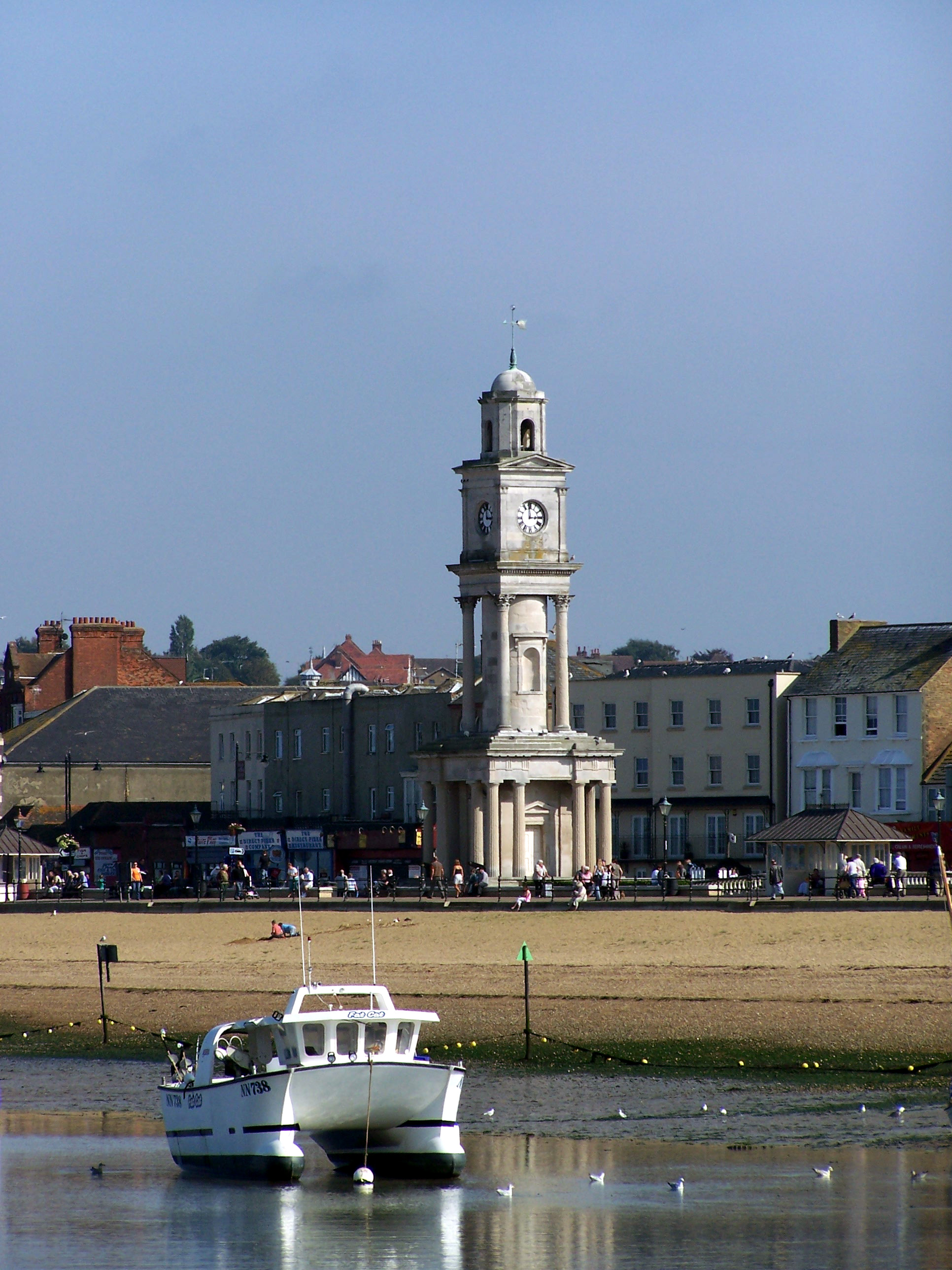 Herne Bay, Herne, Kent, England showing the clock tower and sea front.